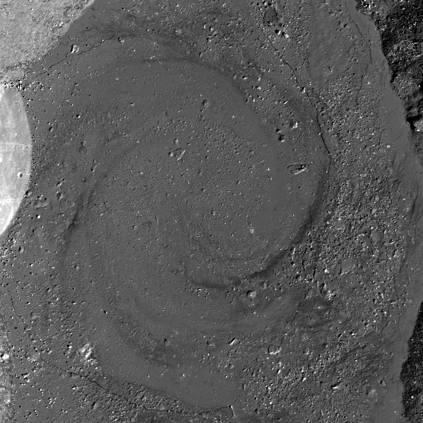 57 cm per pixel NAC frame to highlight the details of a giant swirl (or whorl) of impact melt within one of the larger impact melt pools inside Giordano Bruno.